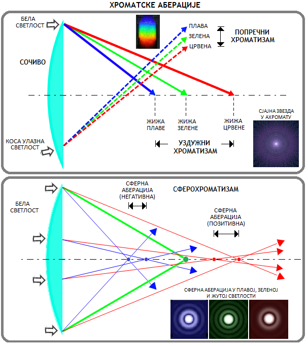 ХРОМАТСКЕ АБЕРАЦИЈЕ